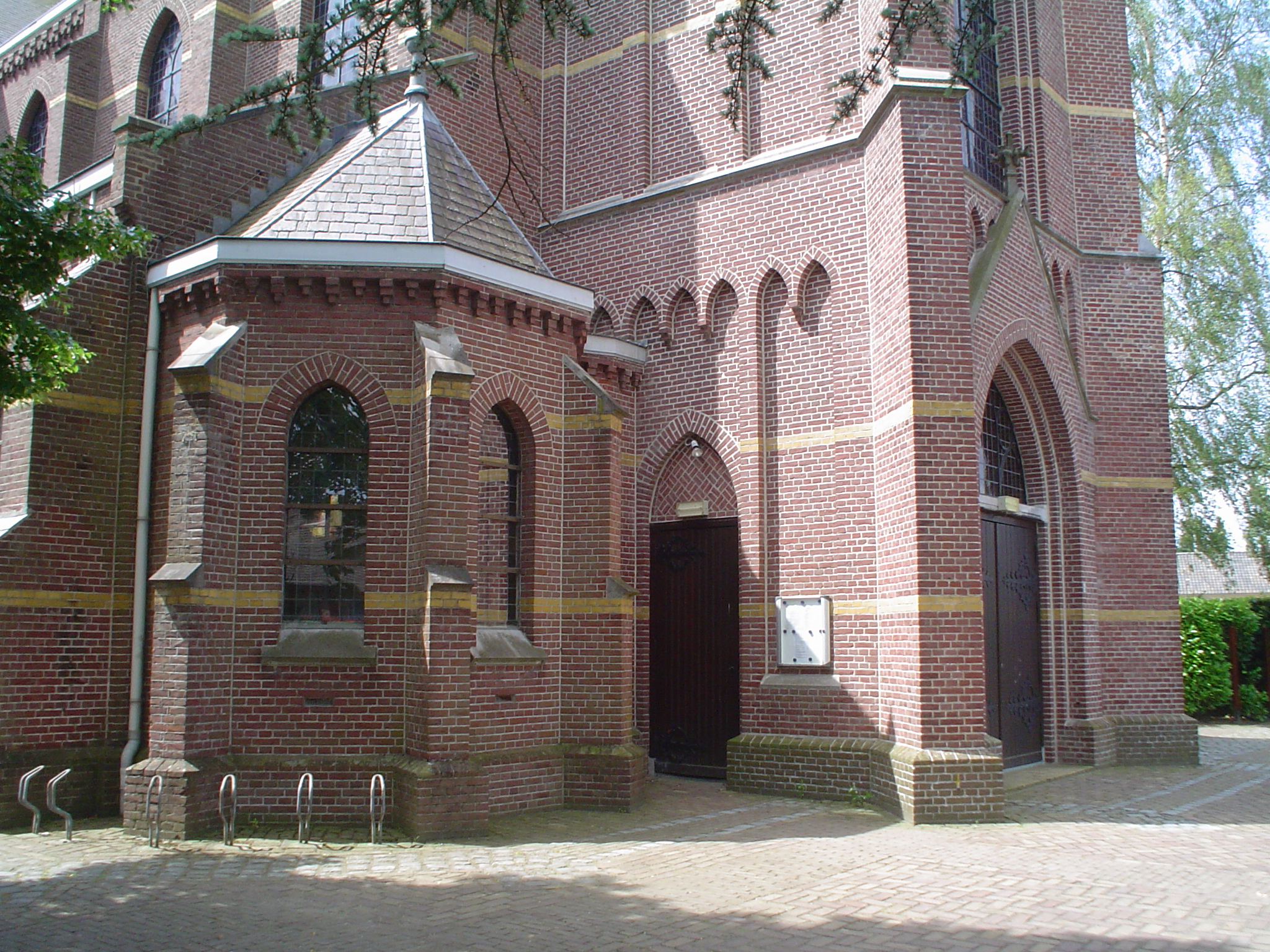 Entrance and northeast chapel of the St. Jan de Doperkerk in Oerle, Veldhoven, the Netherlands.